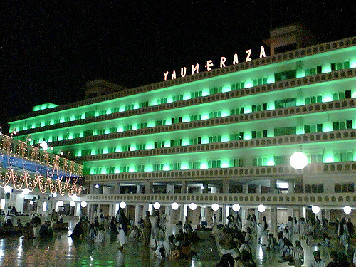 Mosque And Education Center Run By Dawat-e-Islami